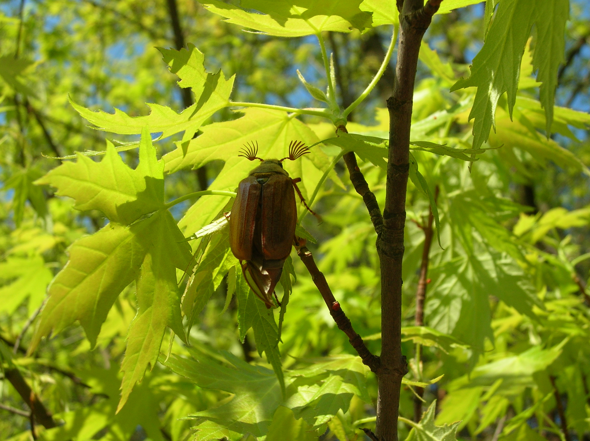 Melolontha melolontha in Ditiatki near Chernobyl